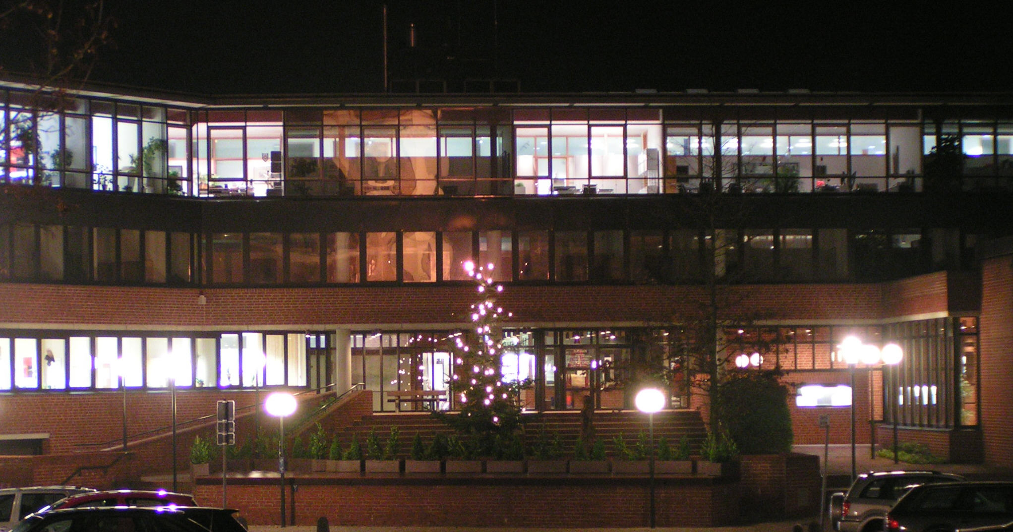 Lohne town hall (Landkreis Vechta, Lower Saxony)